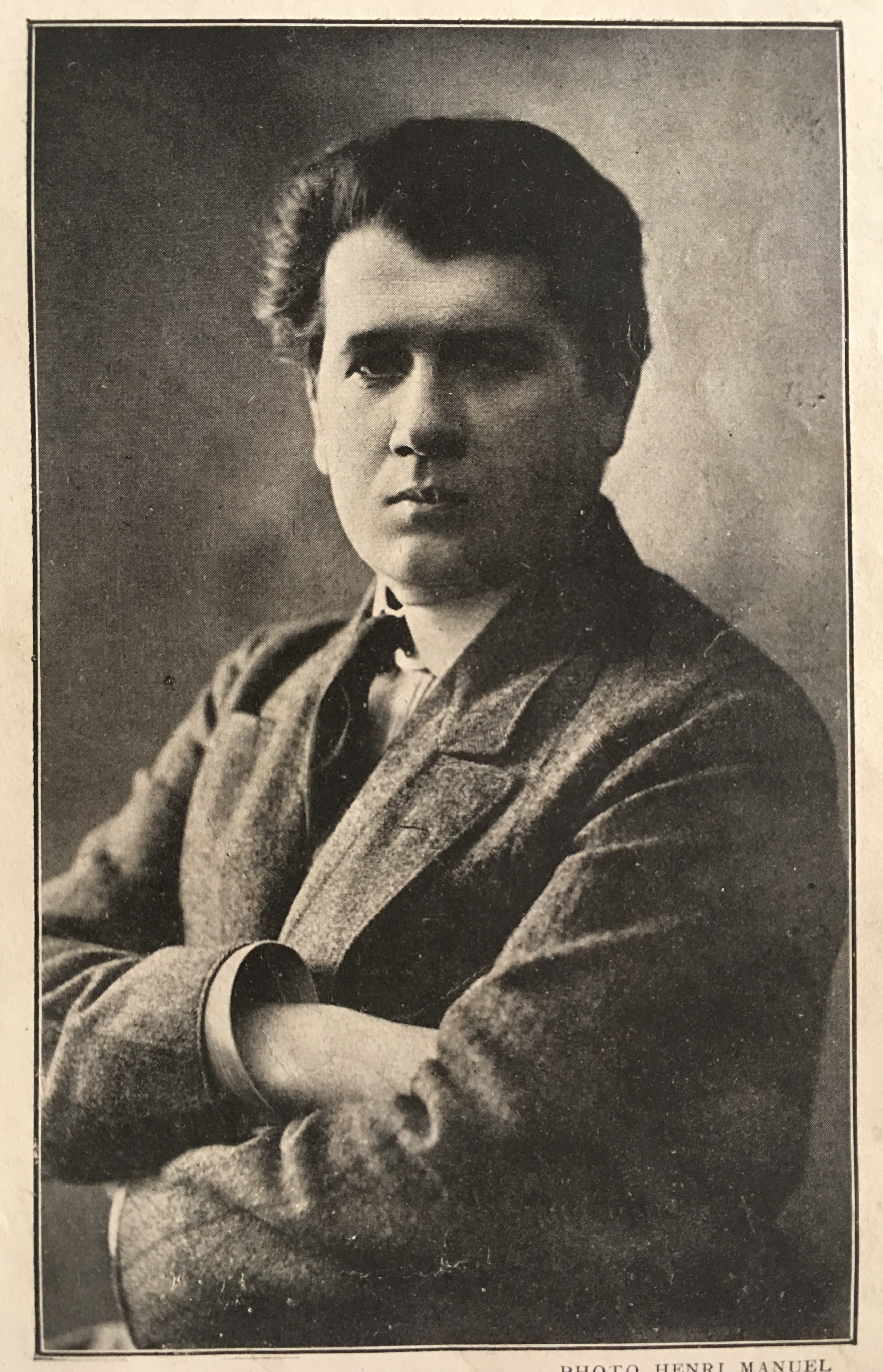 Georges Dorival (1871-1939) Young artist comedian (1908); picture by Henri Manuel (1874-1947) in the front of Vedette revue N°8 du 17 octobre 1908